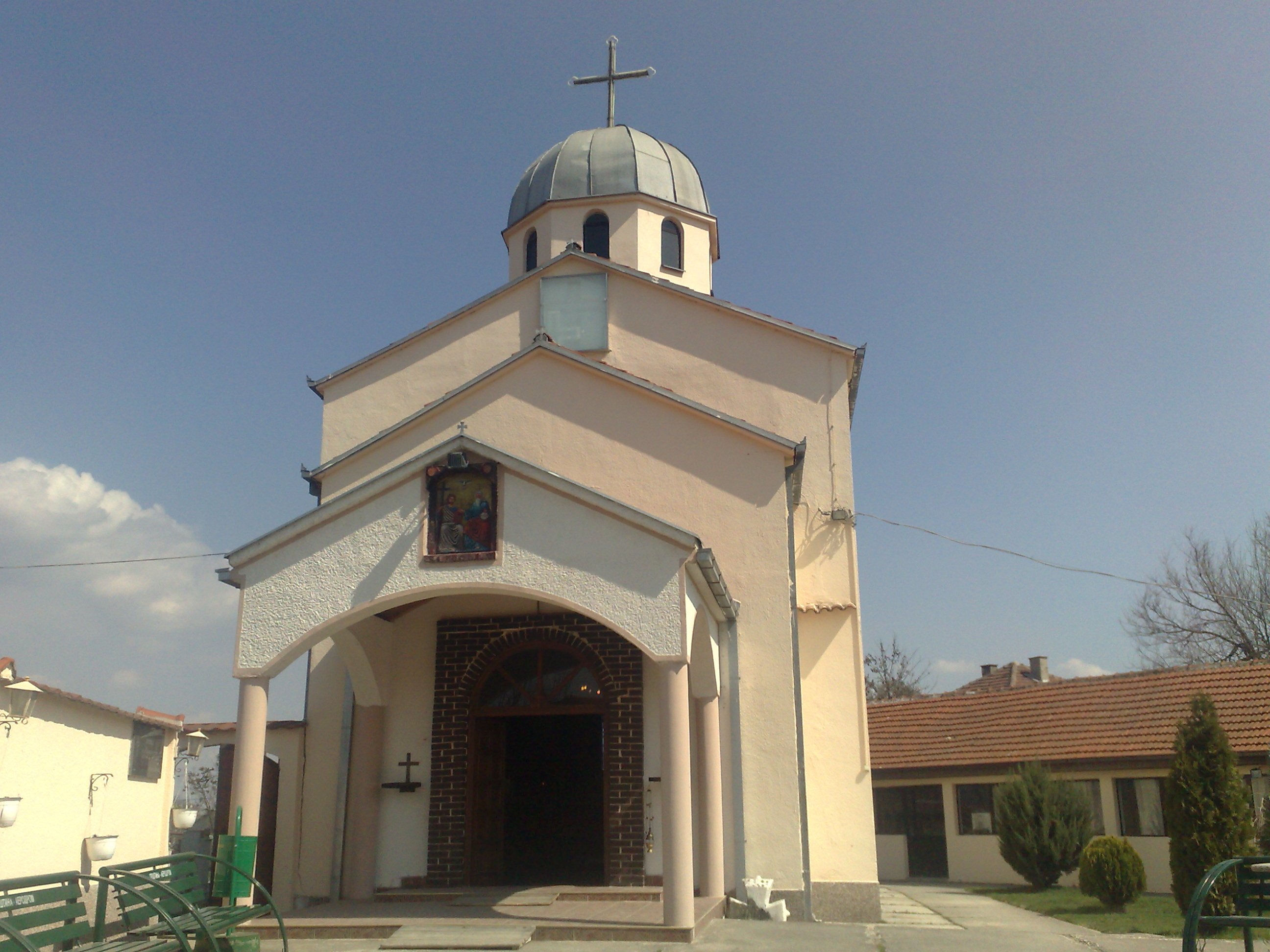 Тhe church of the Holly Trinity in the village of Dolno Lisiche, Macedonia